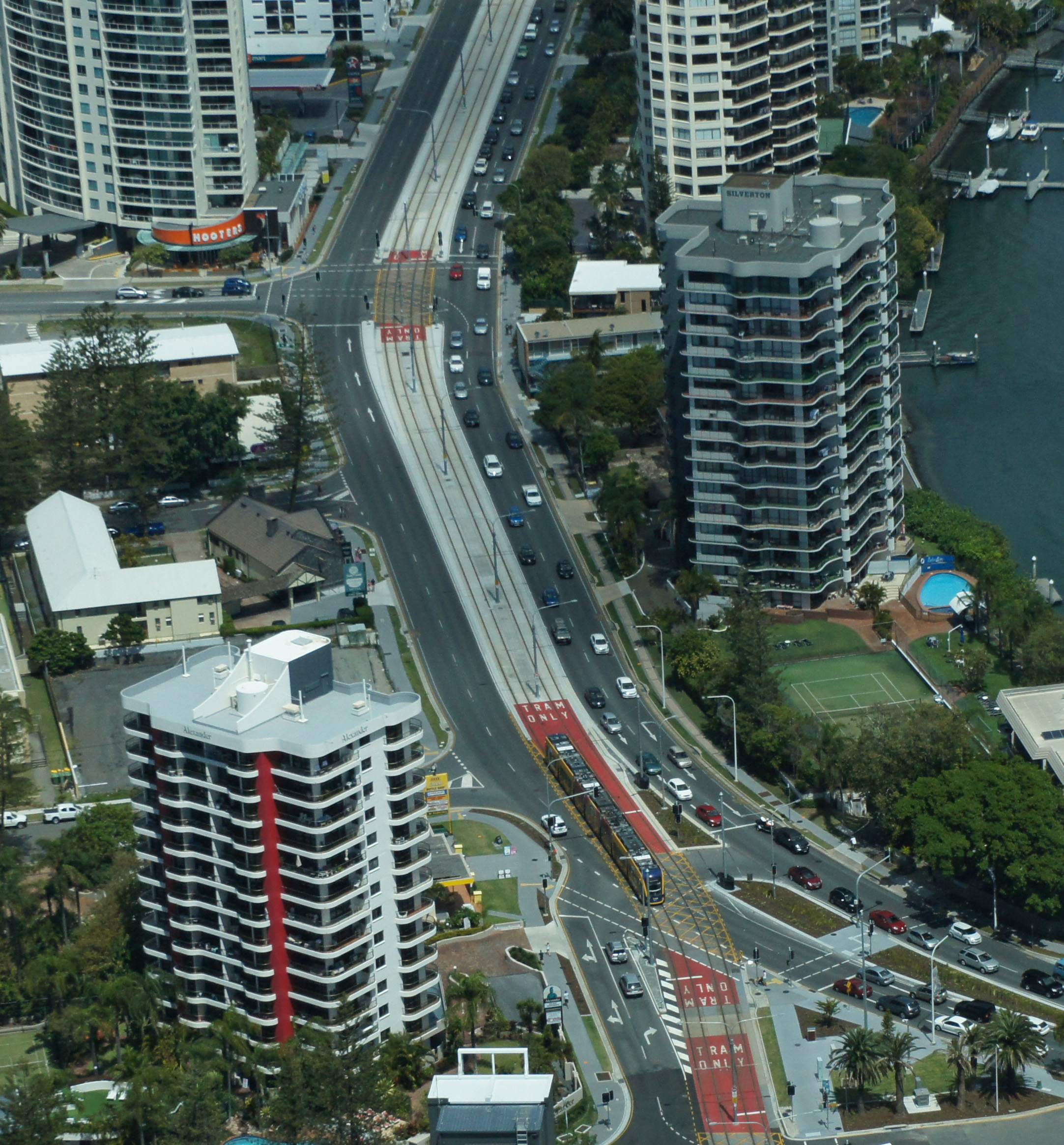 A GCLR vehicle is seen crossing the southbound lanes of the Gold Coast Highway to the south of Surfers Paradise, photographed from Q1 viewing deck